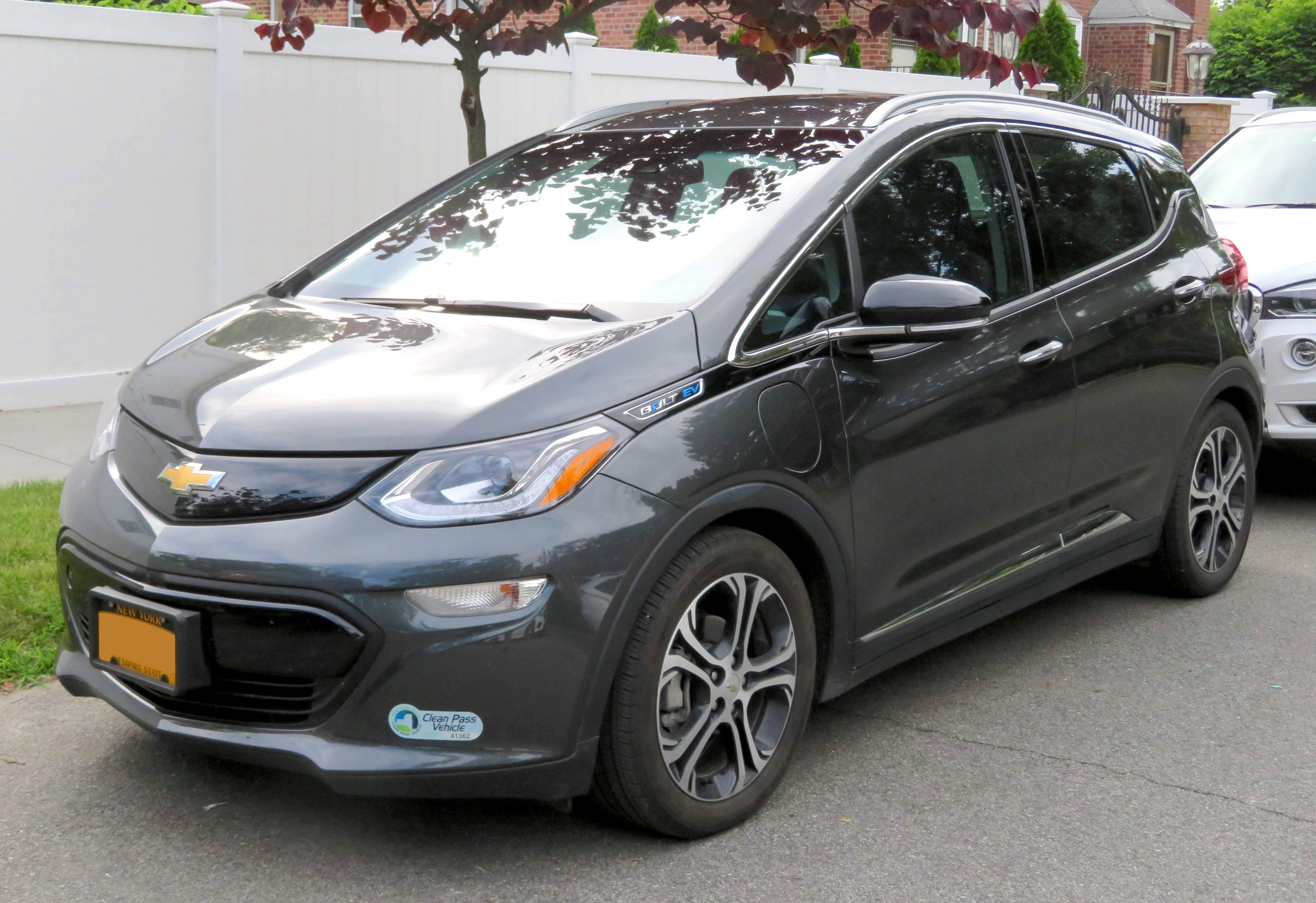 Photographed in Queens, New York